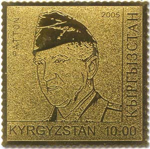 Stamp of Kyrgyzstan